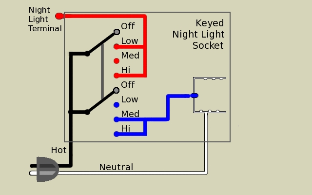 Keyed nightlight socket.